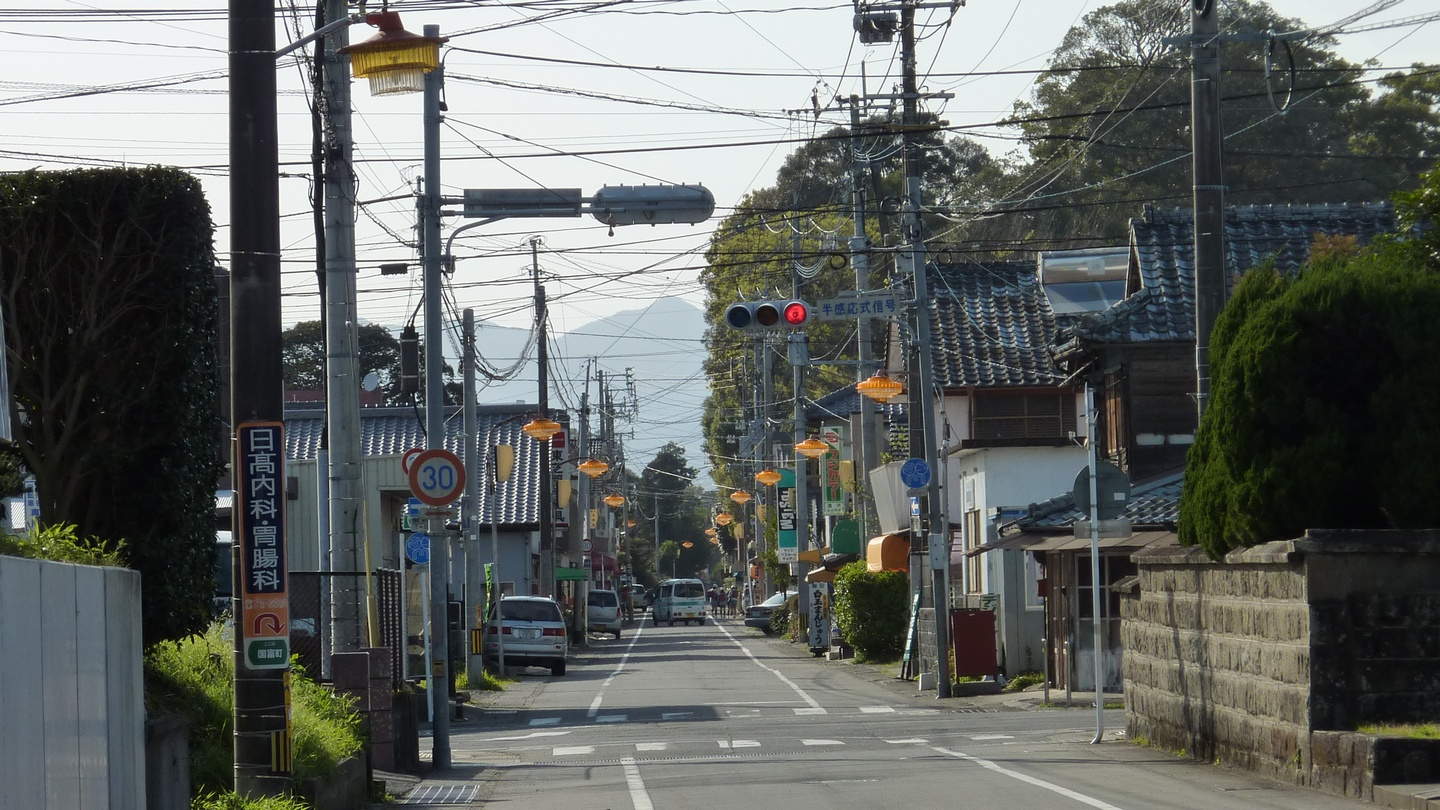 Nakamachi, Honjo, Kunitomi Town, Miyazaki, Japan